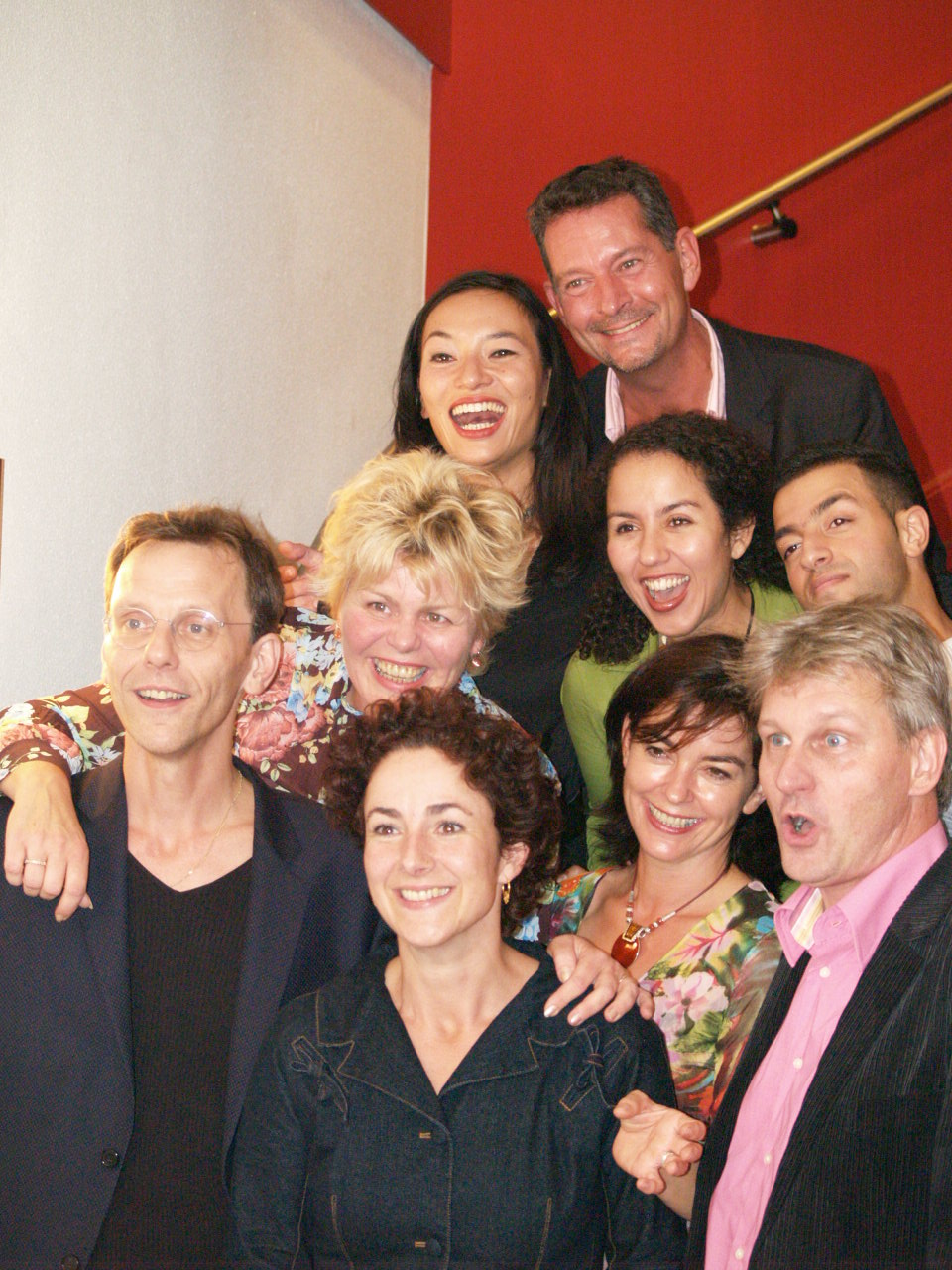 First nine candidates on the list of the GreenLeft for the 2006 general election: Kees Vendrik, Femke Halsema, Jolande Sap, Wijnand Duyvendak, Ineke van Gent, Naima Azough, Tofik Dibi, Mariko Peters and Mathieu Heemelaar